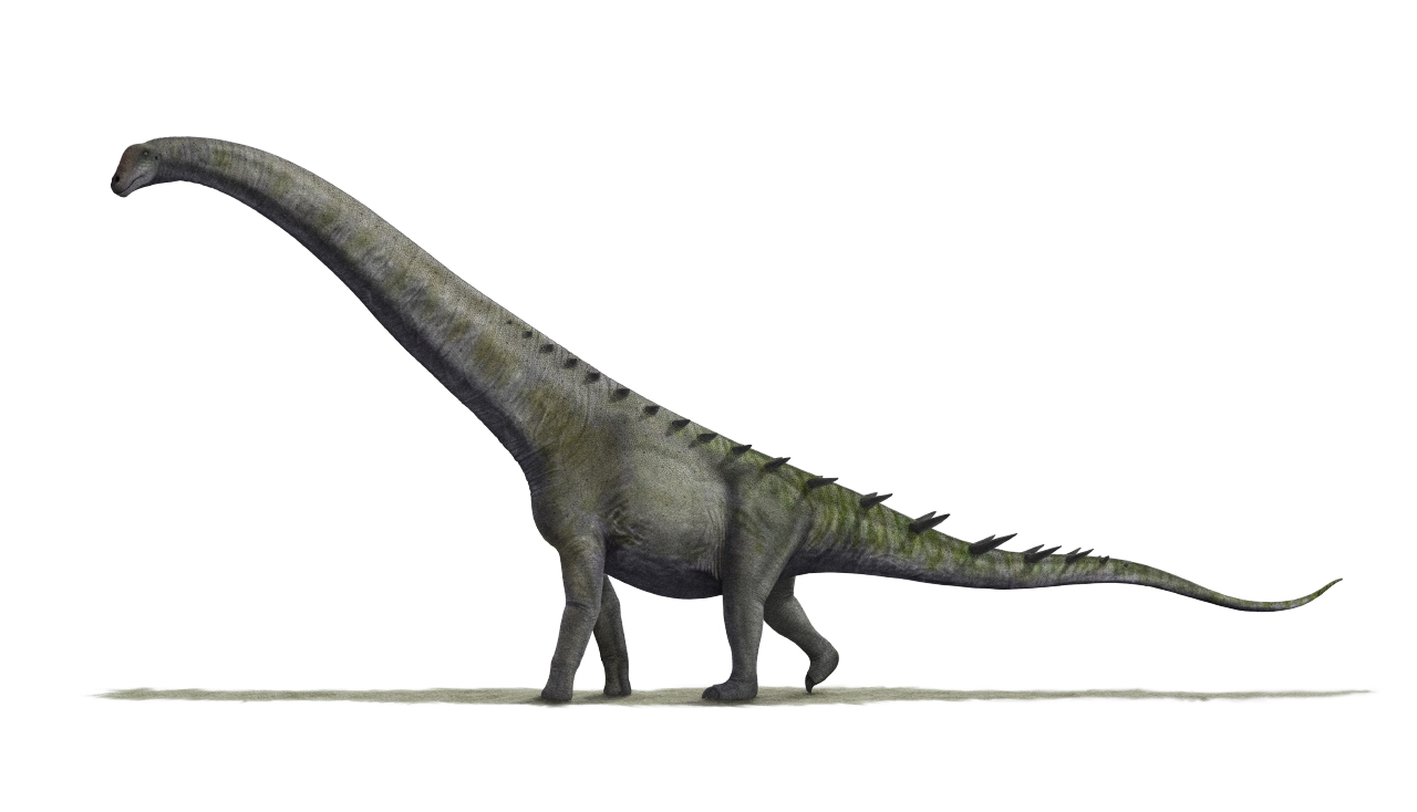 Futalognkosaurus dukei, a sauropod titanosaur from the Late Cretaceous of Argentina, after Calvo et al. (2007), pencil drawing • Futalognkosaurus isn't known to have supported osteoderms. Several titanosaurs are known to of had them including a close relative Medozasaurus. The position and layout of the osteoderms has been loosely based on this interpretation, which is based on the work of Vidal et al 2015. [1]